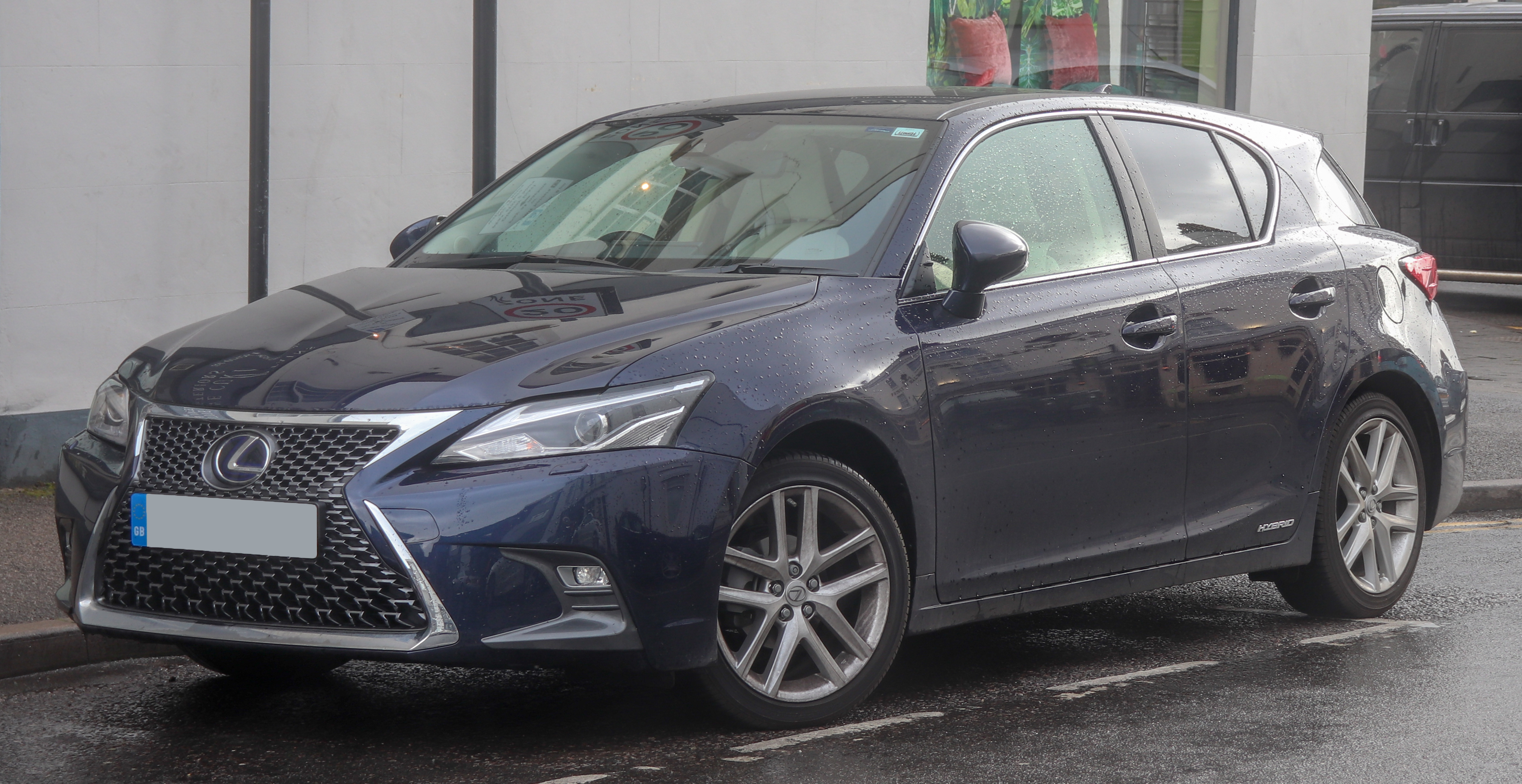 2018 Lexus CT 200h Premier CVT 1.8 Front Taken in Leamington Spa